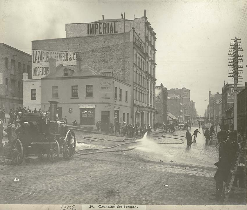 Cleansing operations in Sydney streets, quarantine area, 1900 spread of bubonic plague